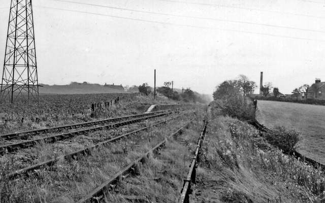 Broomhouse Station (remains), View SE, towards Hamilton; ex-North British Glasgow (Queen St. LL) - Shettlestone - Bothwell - Hamilton line. This station was closed to passengers back on 24/9/27 (goods on 1/9/53), but passenger trains continued to Bothwell until 4/7/55. But that's 55 years ago! [It's not clear to me why track was still here in 1961 - can anyone enlighten me?]